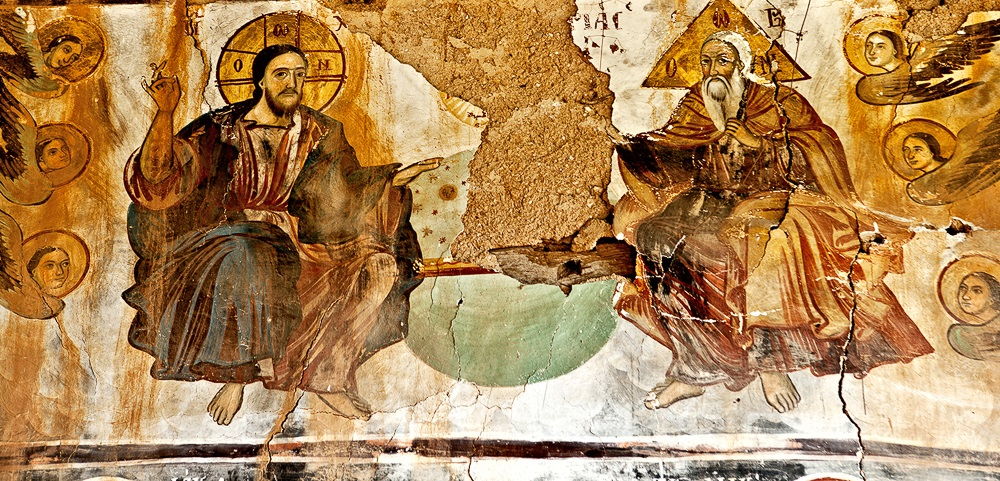 Clocks in Paradise Pozdivishta Chalara Fresco